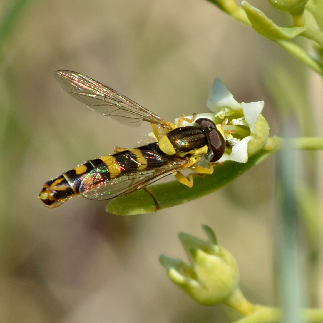 Syrphidae ssp on the Thesium ebracteatum. Keila, northwestern Estonia.